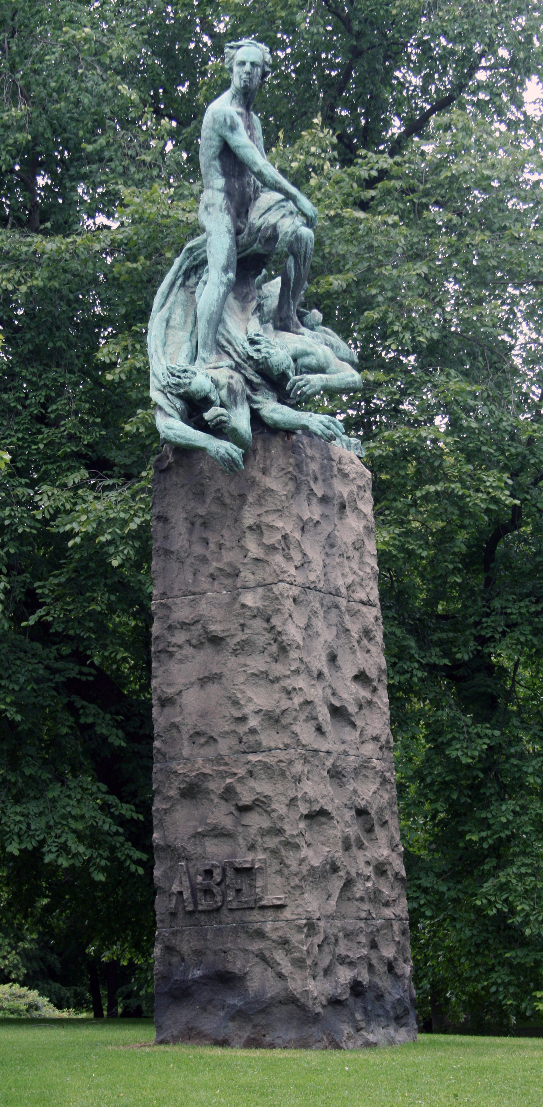 The Abel Monument i the Castle Park in Oslo, Norway. Artist: Gustav Vigeland (1869–1943). Erected in 1908 in the memory of the mathmatician Niels Henrik Abel (1802–29).